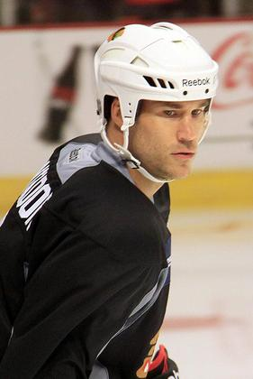 Steve Montador at Blackhawks training camp festival 9/17/11